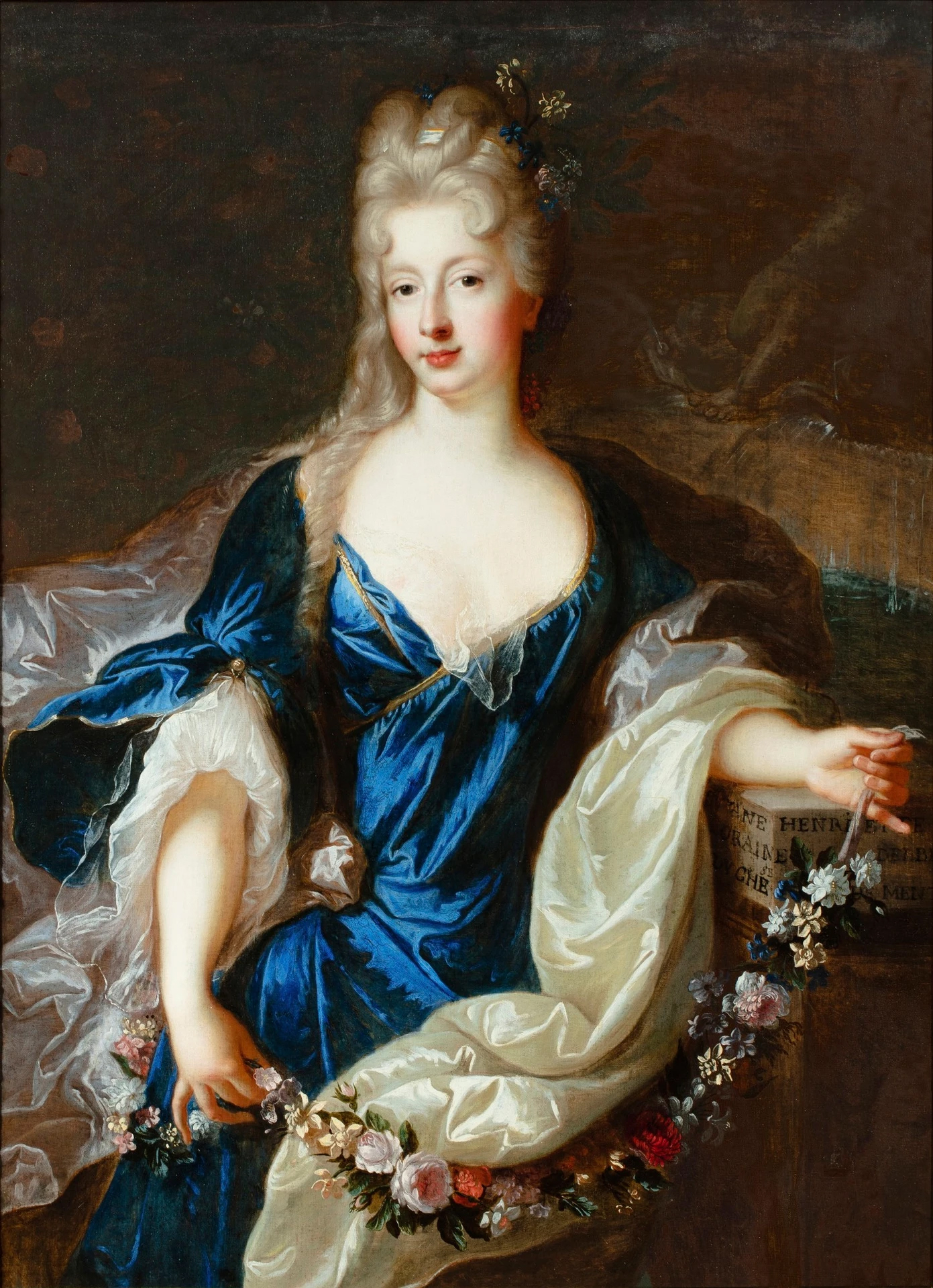 Portrait of Suzanne Henriette of Lorraine (1686-1710), Duchess of Mantua